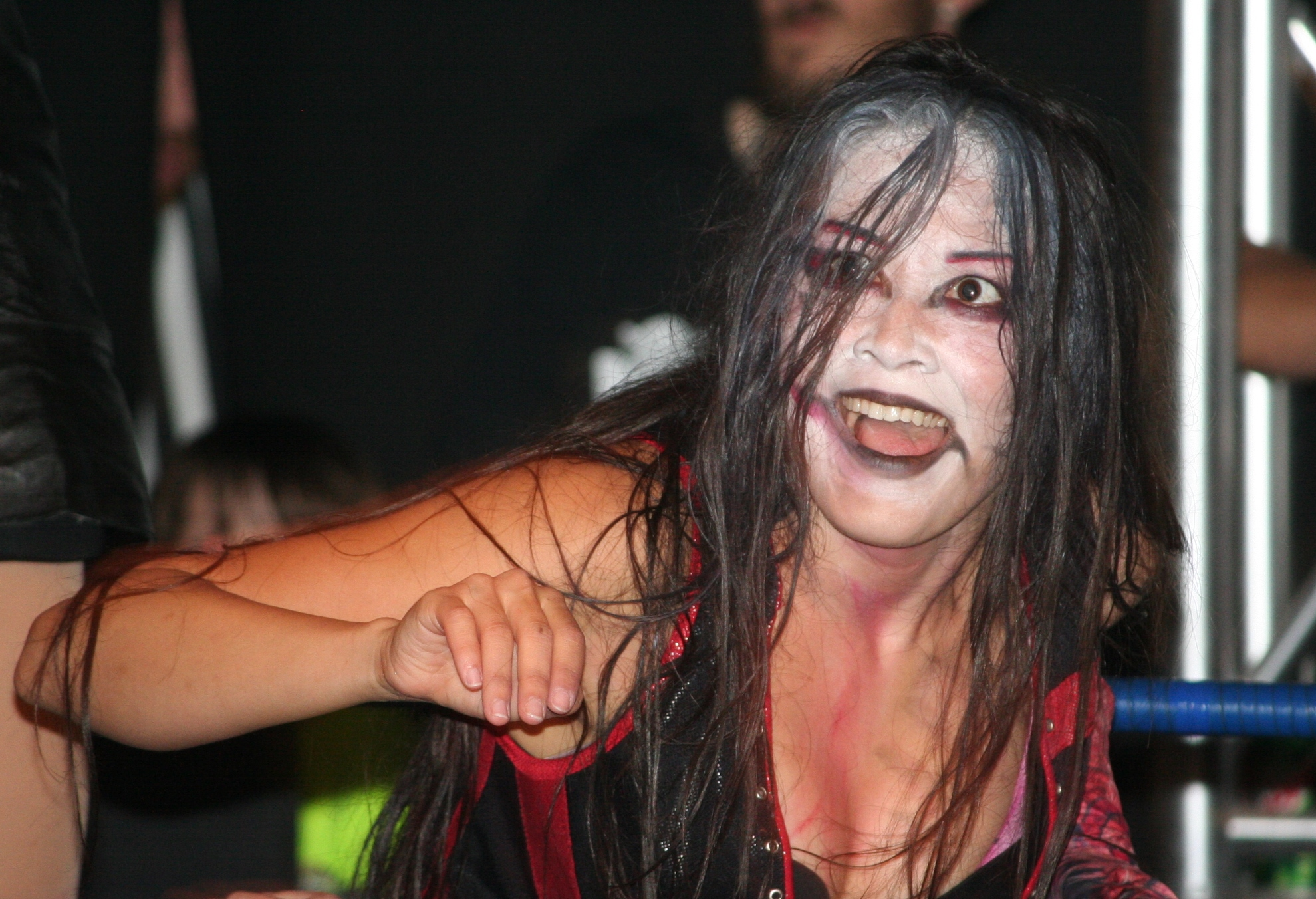 Independent wrestler Su Yung at an Queens of Combat wrestling show in Gibsonville, NC